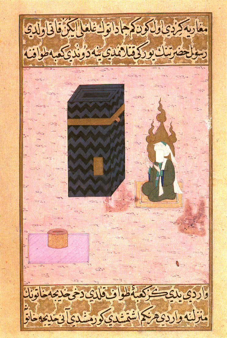 Muhammad at the Ka'ba